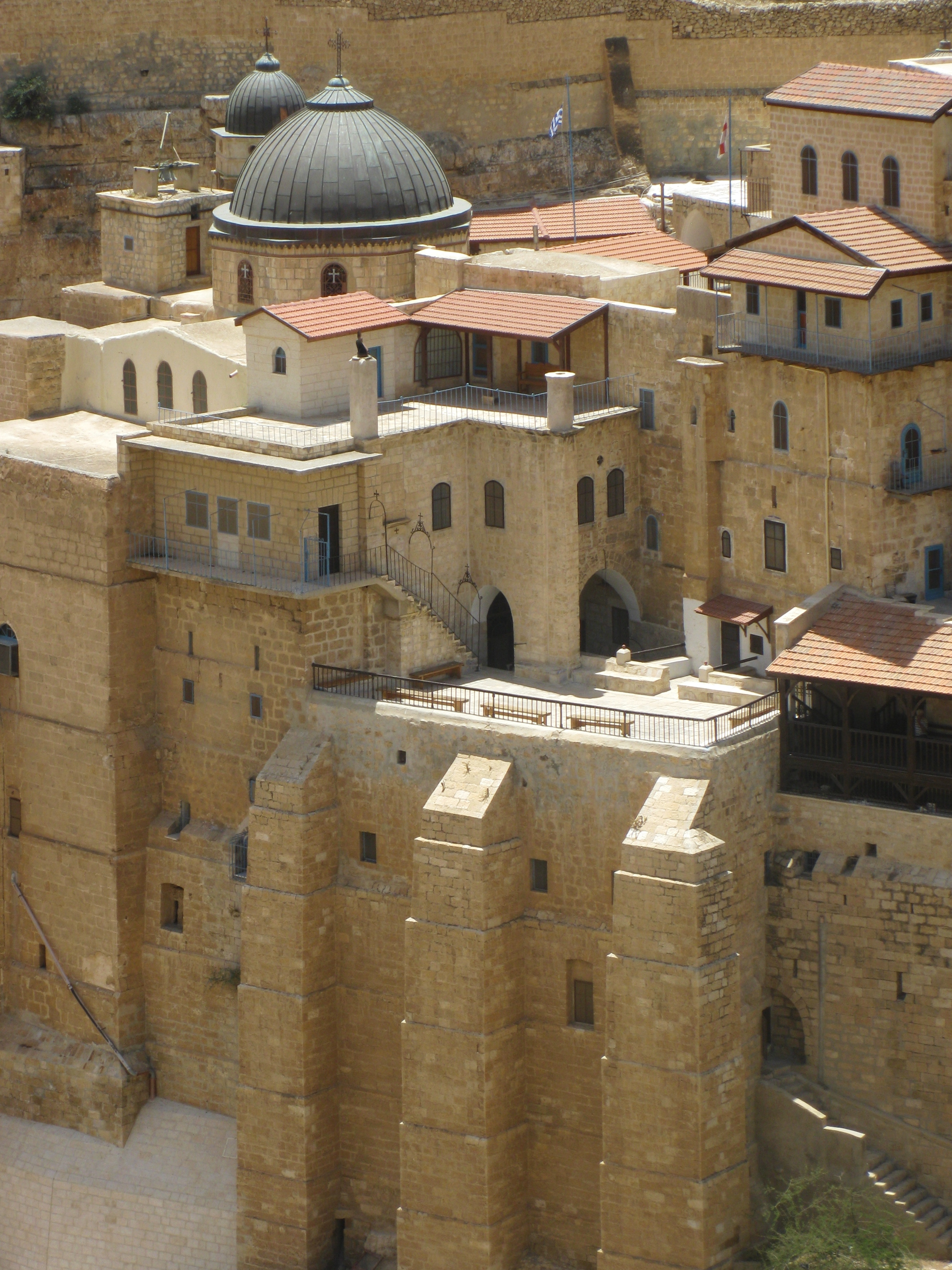 Mar Saba Monestary